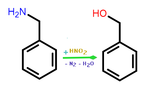 Benzyl alcohol synthesis from benzylamine